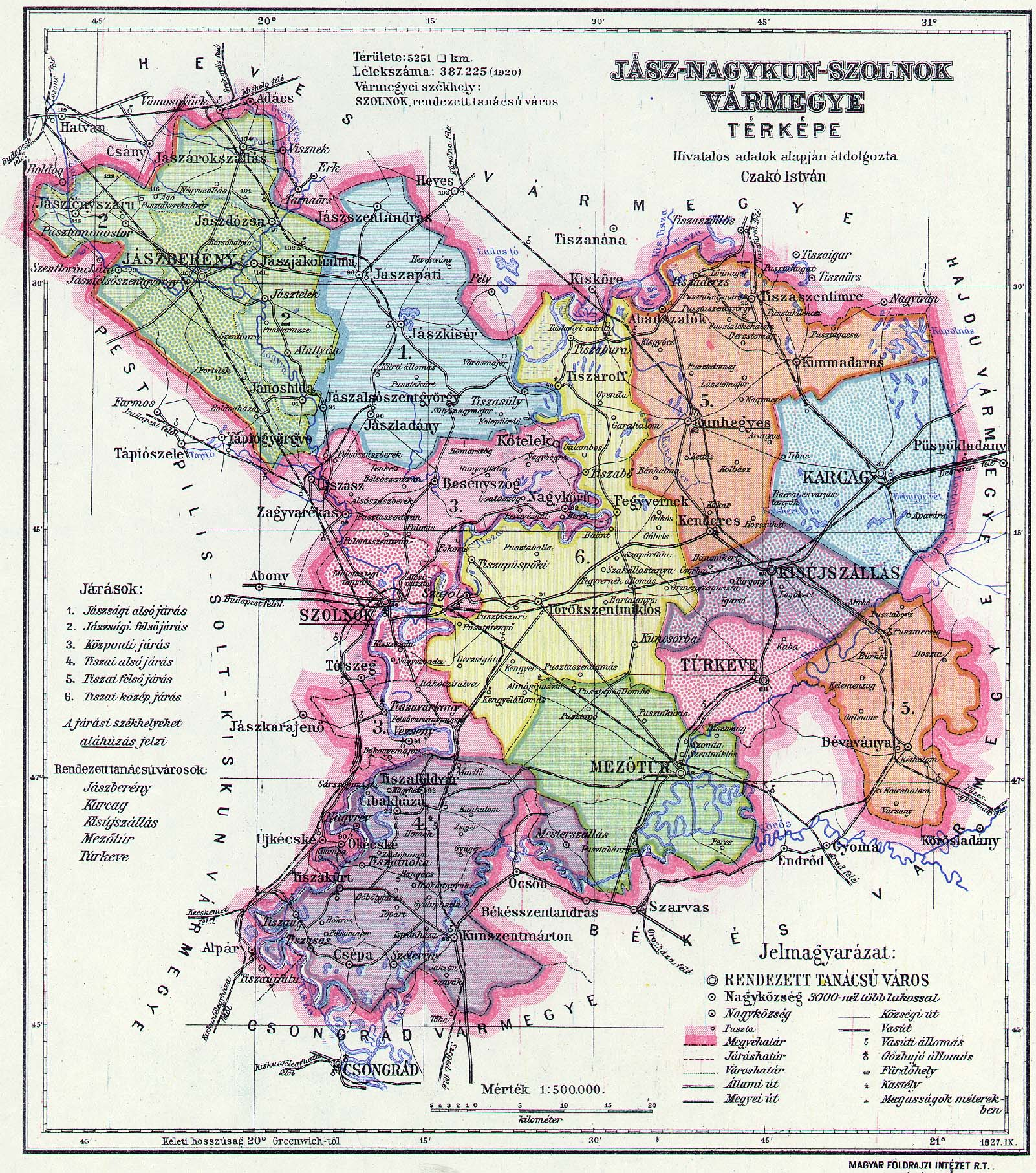 Administrative map of the county of Jász-Nagykun-Szolnok in the Kingdom of Hungary